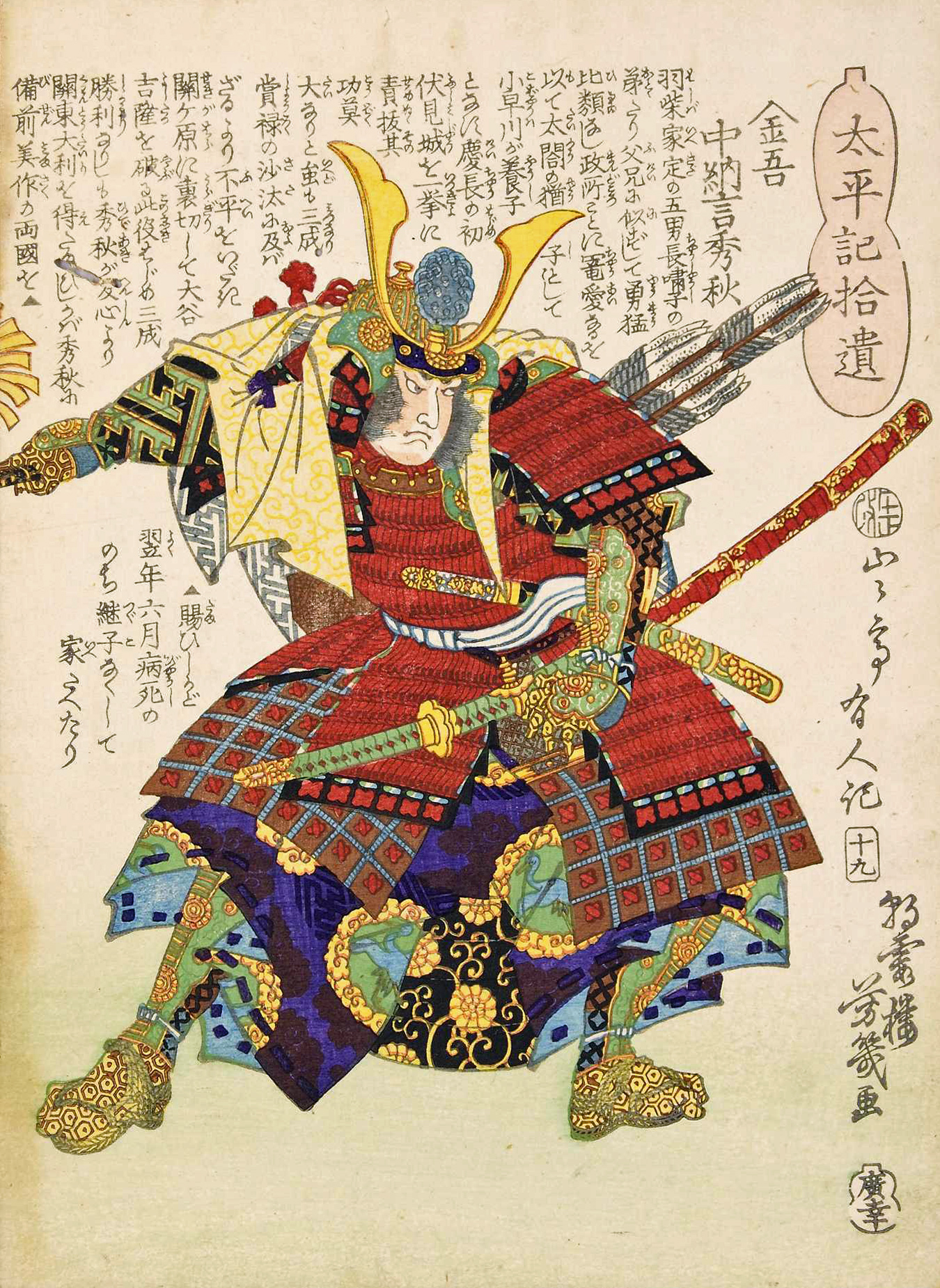 Daimyō Hideaki Kobayakawa of the Okayama Domain (Ukiyo-e artwork). He was born in 1577 Bitchū Province, died: December 1, 1602 (aged 24 or 25) Okayama Domain.